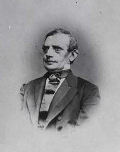 Niels Frederik Larsen (1814-1881), Danish industrialist and politician